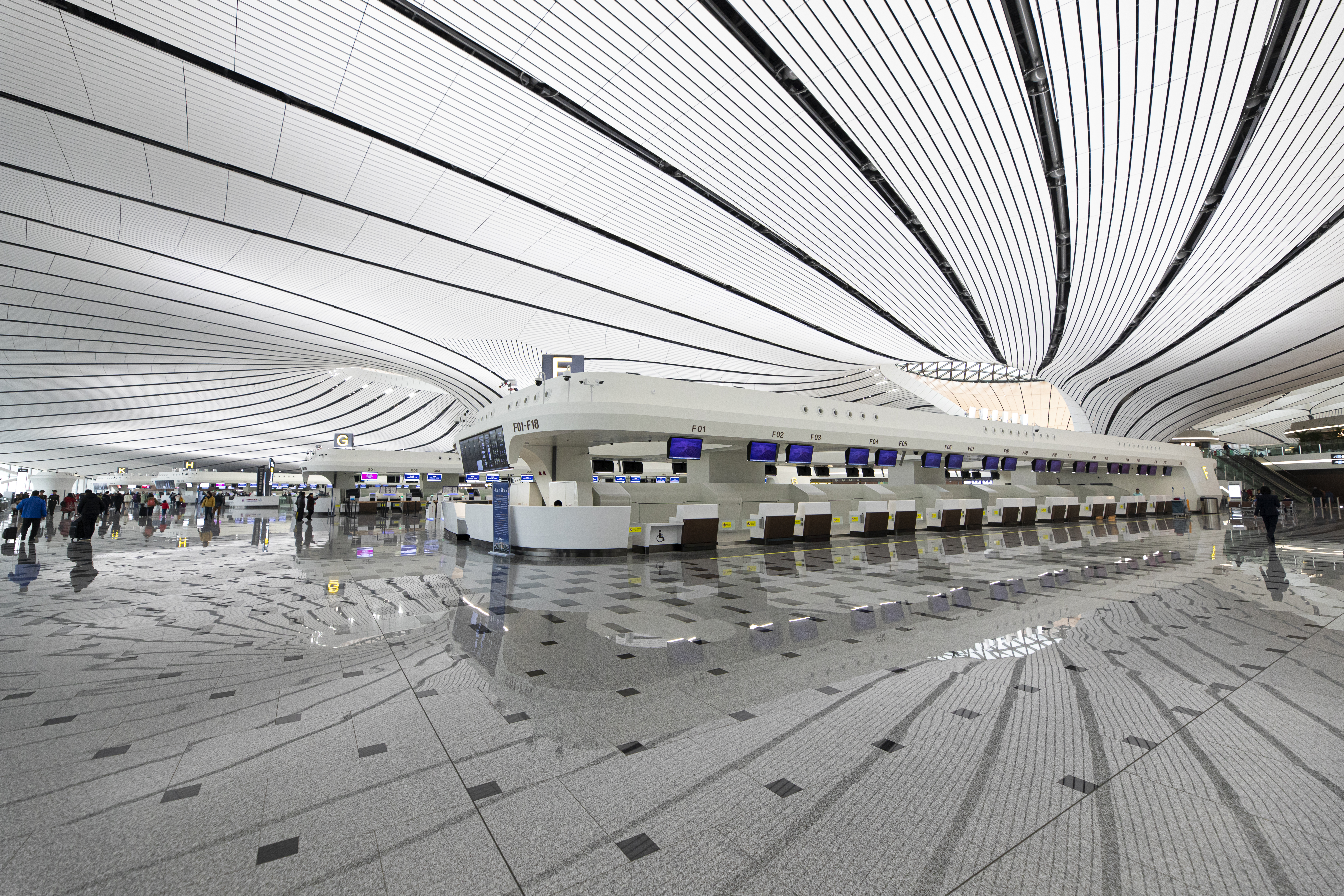 Beijing Daxing International Airport